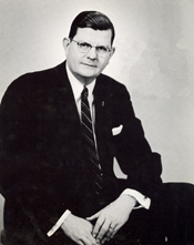 Basil Lee Whitener, US Representative from North Carolina